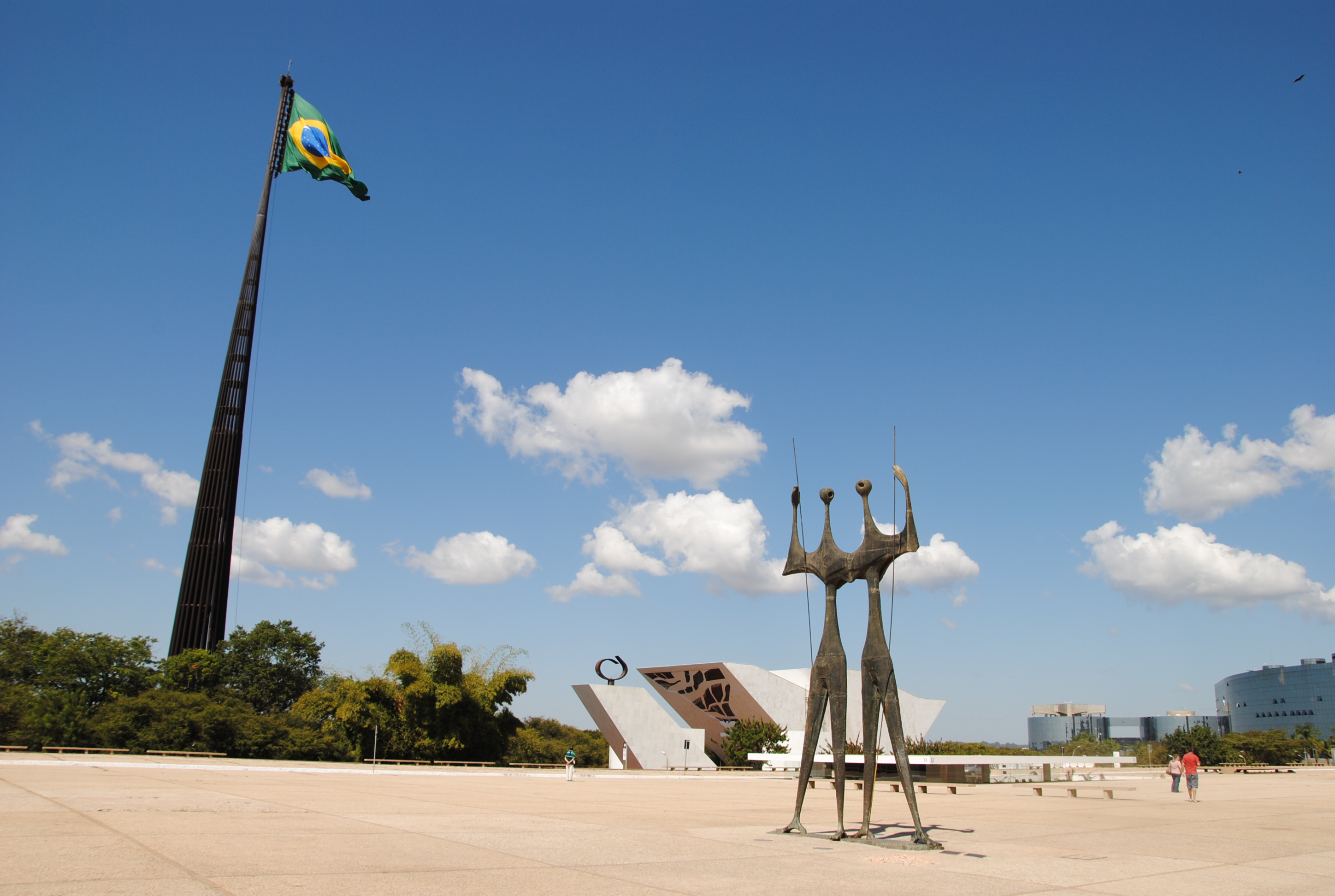 Three Powers Plaza - behind the National Congress building. Brasília, the capital of Brazil.